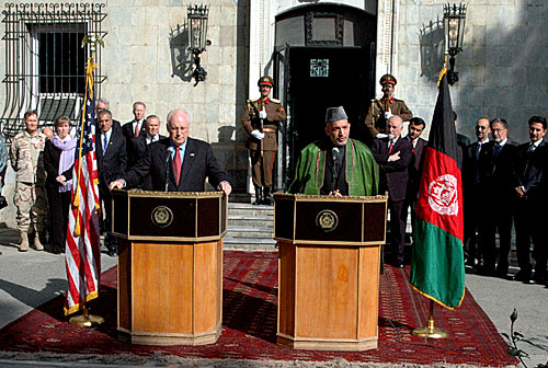 Vice President Dick Cheney and Afghan President Hamid Karzai hold a joint press conference outside the royal palace in Kabul Dec. 7 following Karzai's inauguration ceremony. U.S. Navy photo by Lt. Cmdr. Jane Campbell